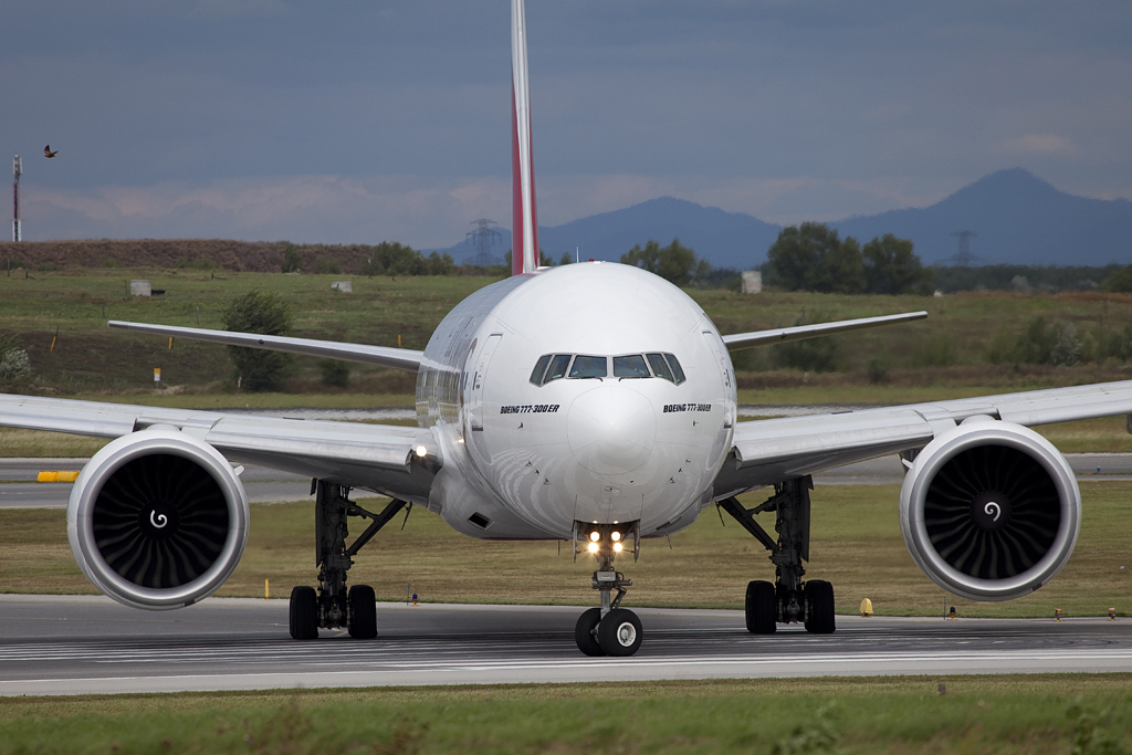 A6-ECF B777-300 Emirates front